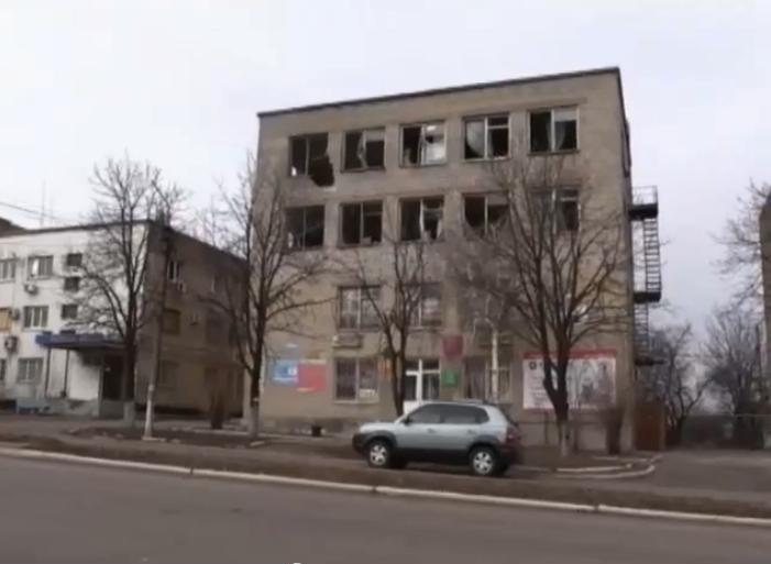 The results of fire fighters. Marjinka, Ukraine